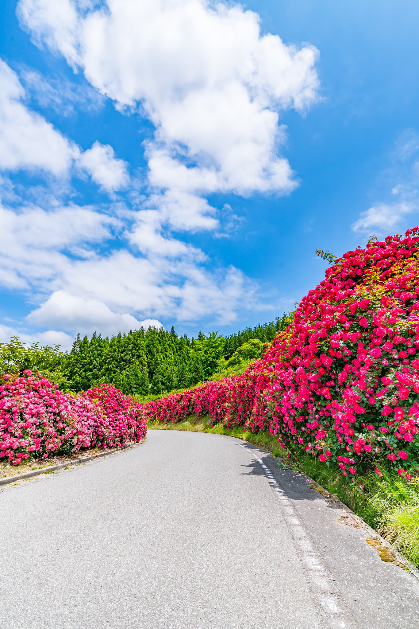 500px provided description: rose road [#landscape ,#nature ,#flower ,#road ,#japan ,#summer ,#season ,#grass ,#rose ,#flora ,#outdoors ,#niigata ,#no person ,#sadoisland ,#japantrip]